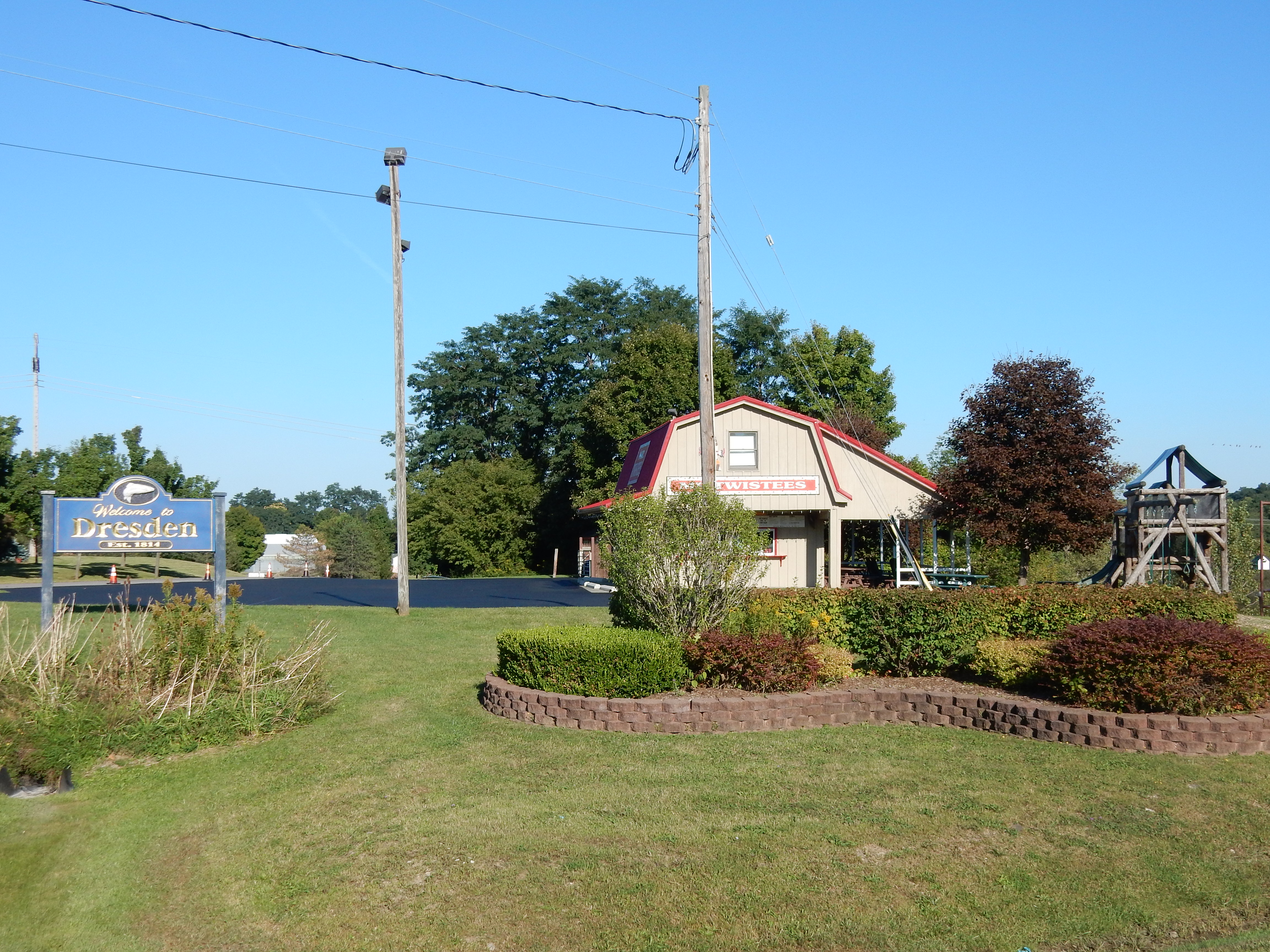 Mr. Twistee's ice cream parlor, village of Dresden, Yates County, New York, USA. Entrance to the village from Route 14.